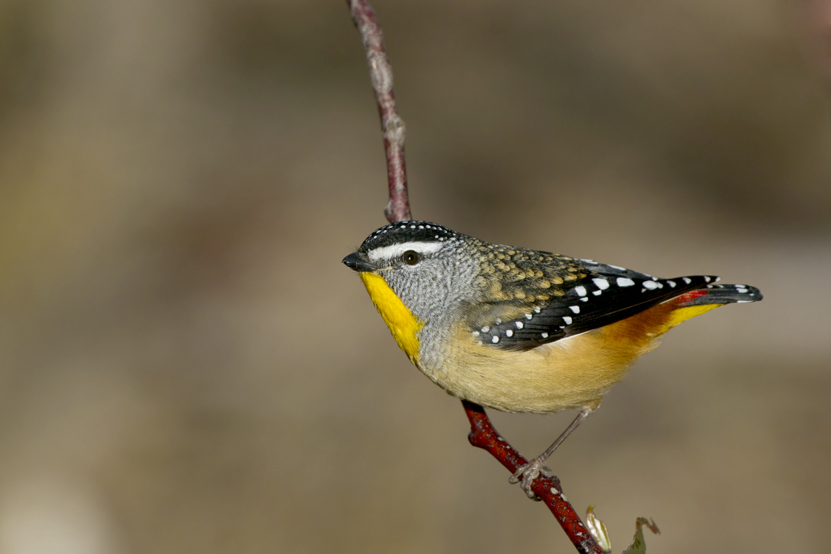 Strangways Vic.